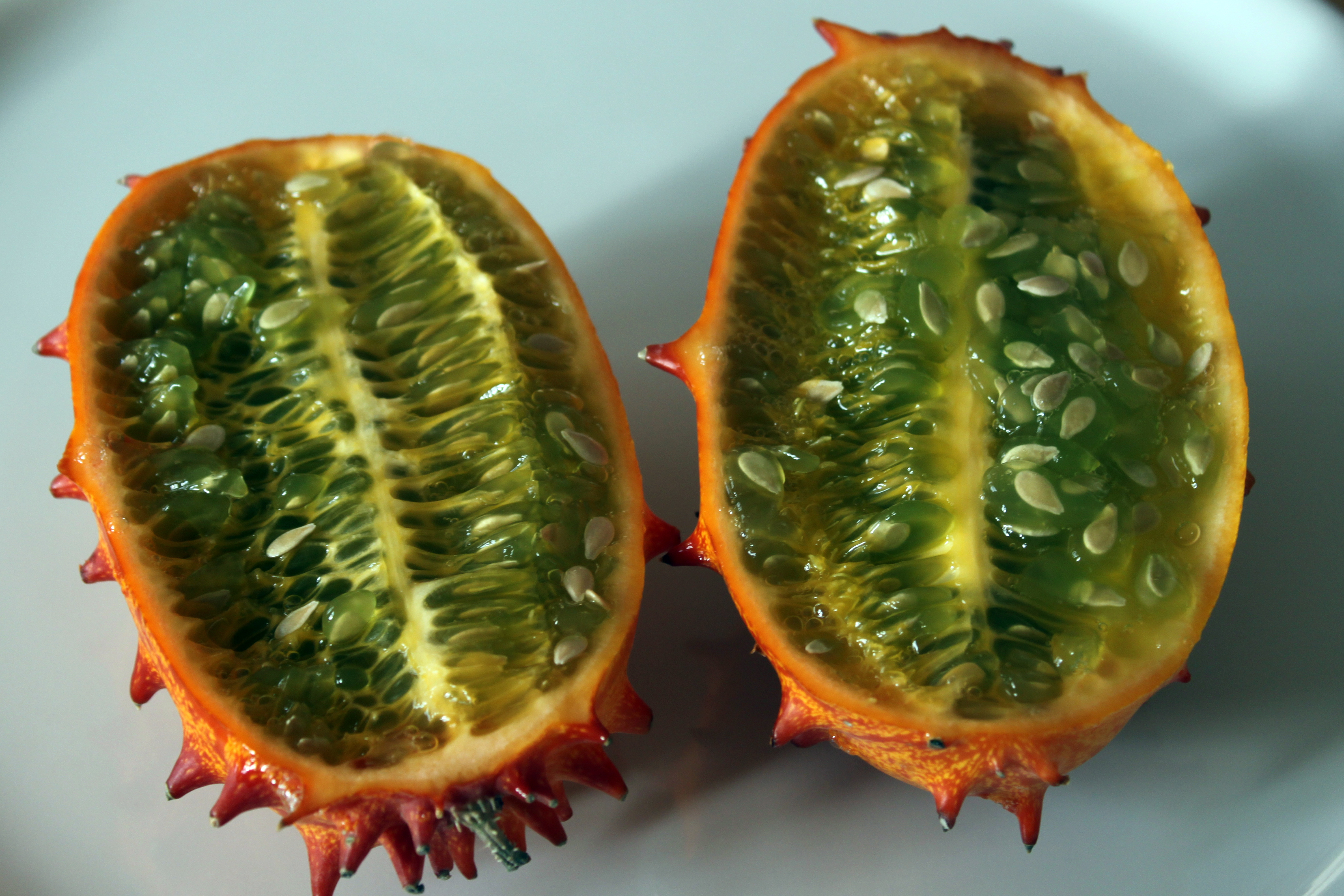 Cucumis metuliferus, also known as "Horned Melon", sold under the name of "Kiwano"